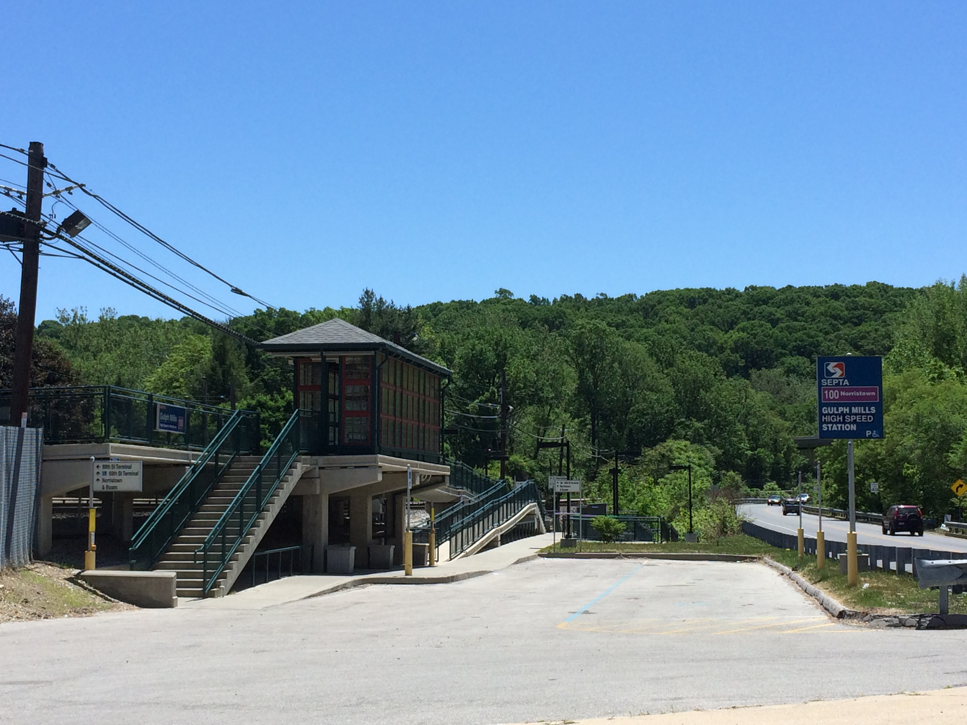 Gulph Mills station in May 2015